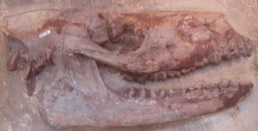 Skull of Anoplotherium commune, an early artiodactyl.